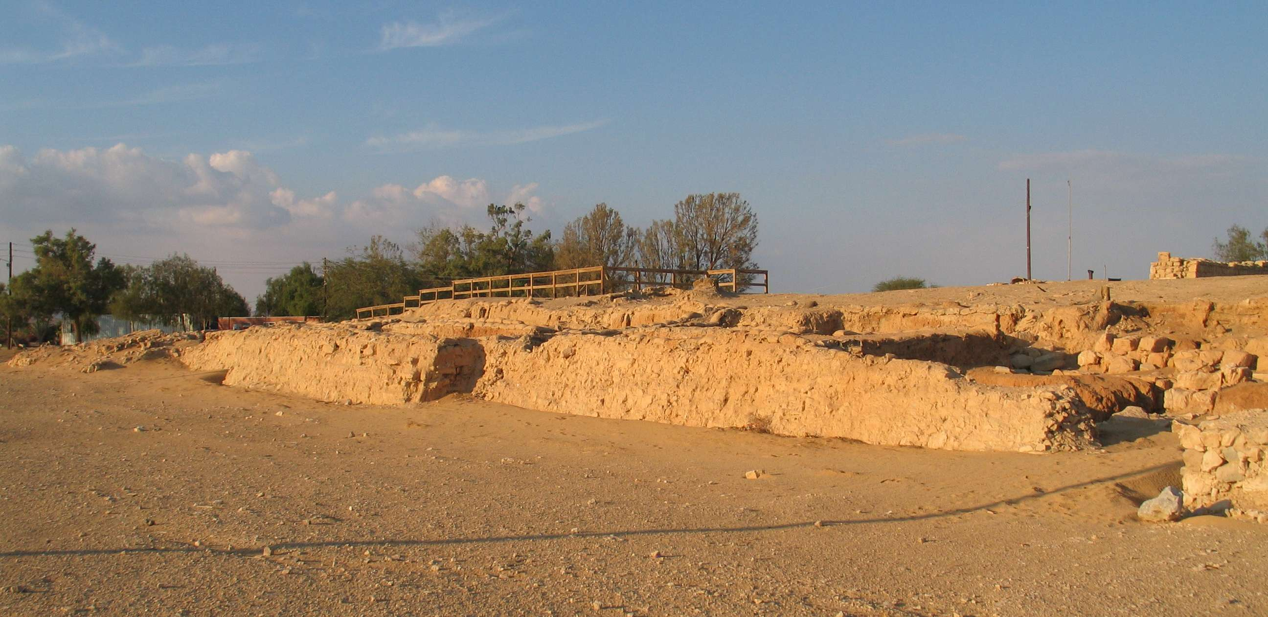 Metsad Hatseva, Israel.